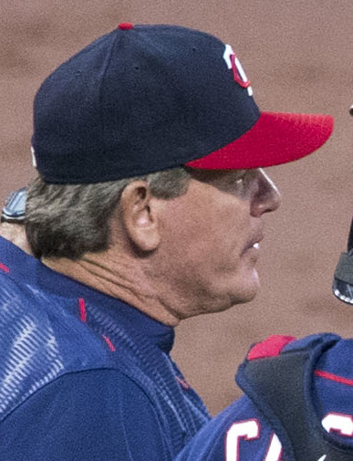 Twins at Orioles 5/22/17